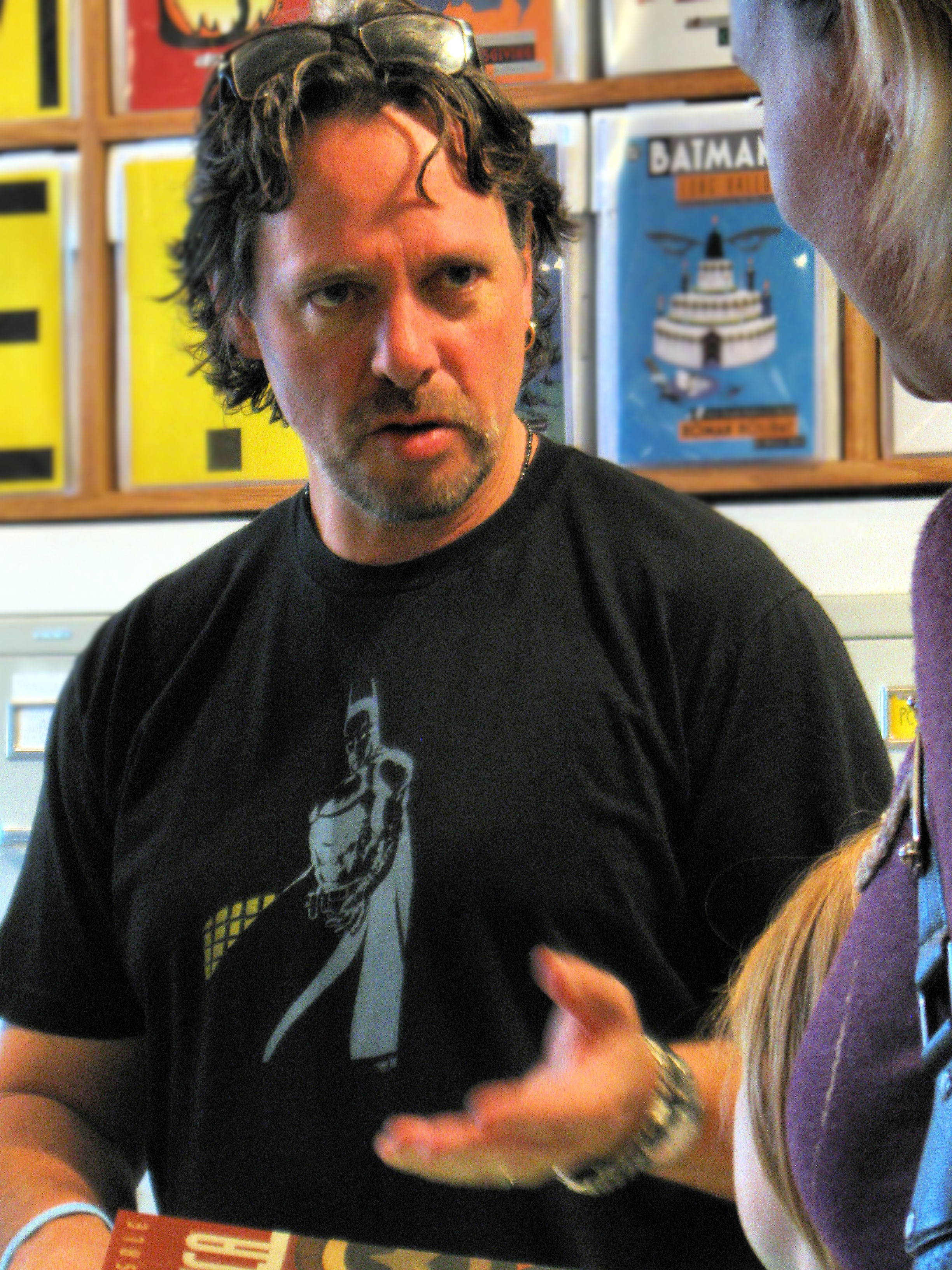 Tim Sale signing books at Golden Age Collectables, Pike Place Market, Seattle, Washington.